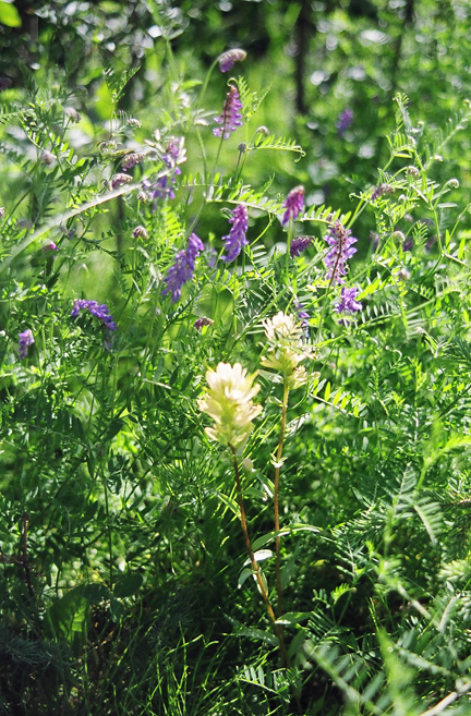 White paintbrush and bird vetch 2004 D. Windrim Captioned As {}